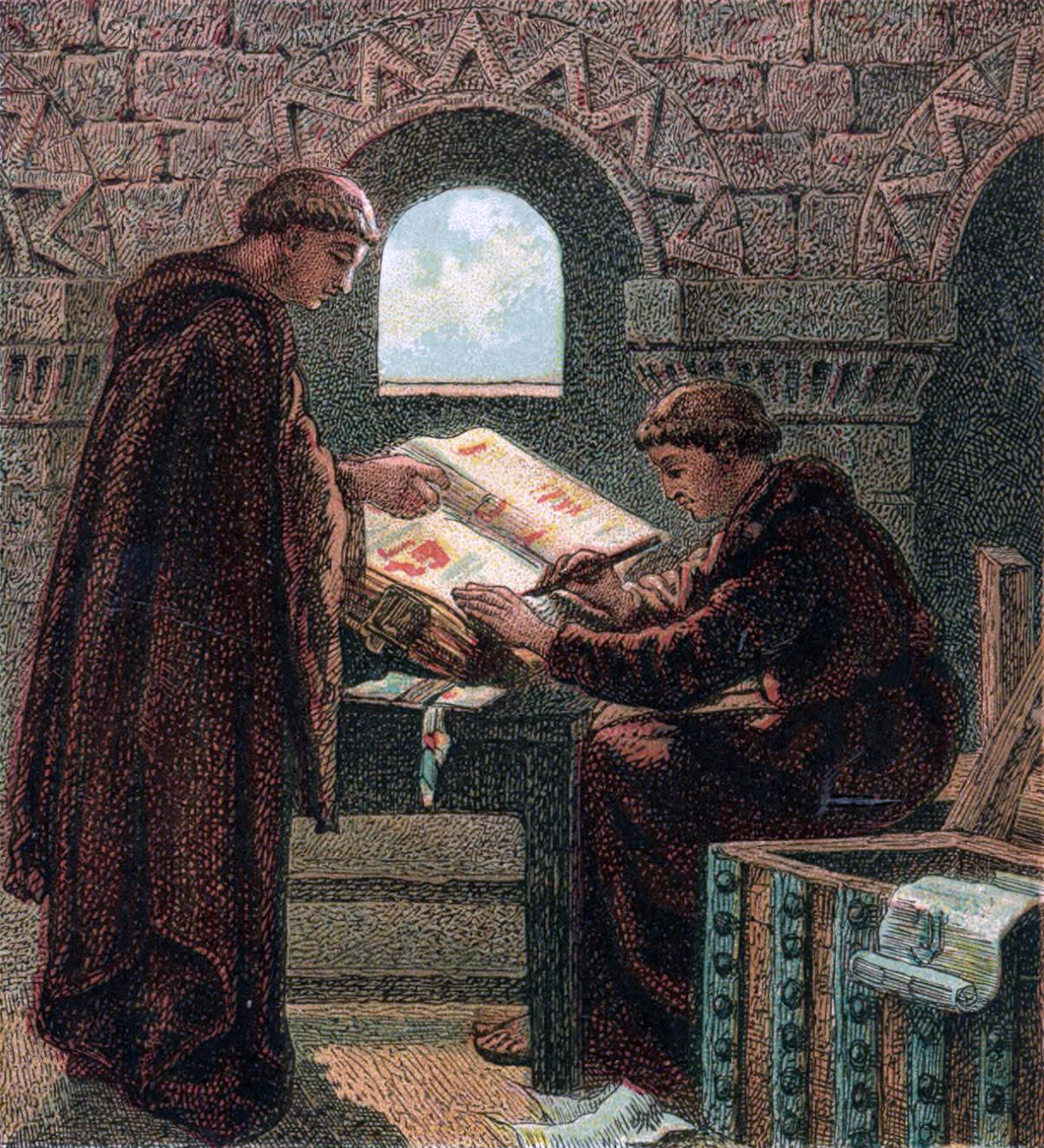 Writing the Domesday Book